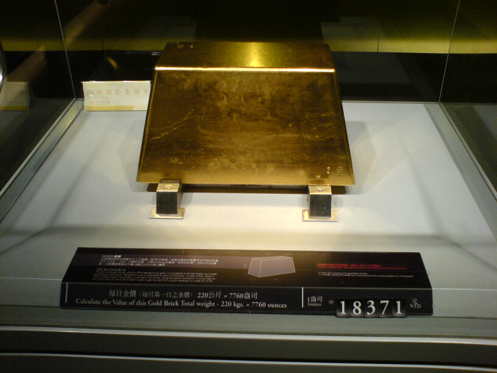 The 220kg gold brick displayed in Gold Ecological Park.